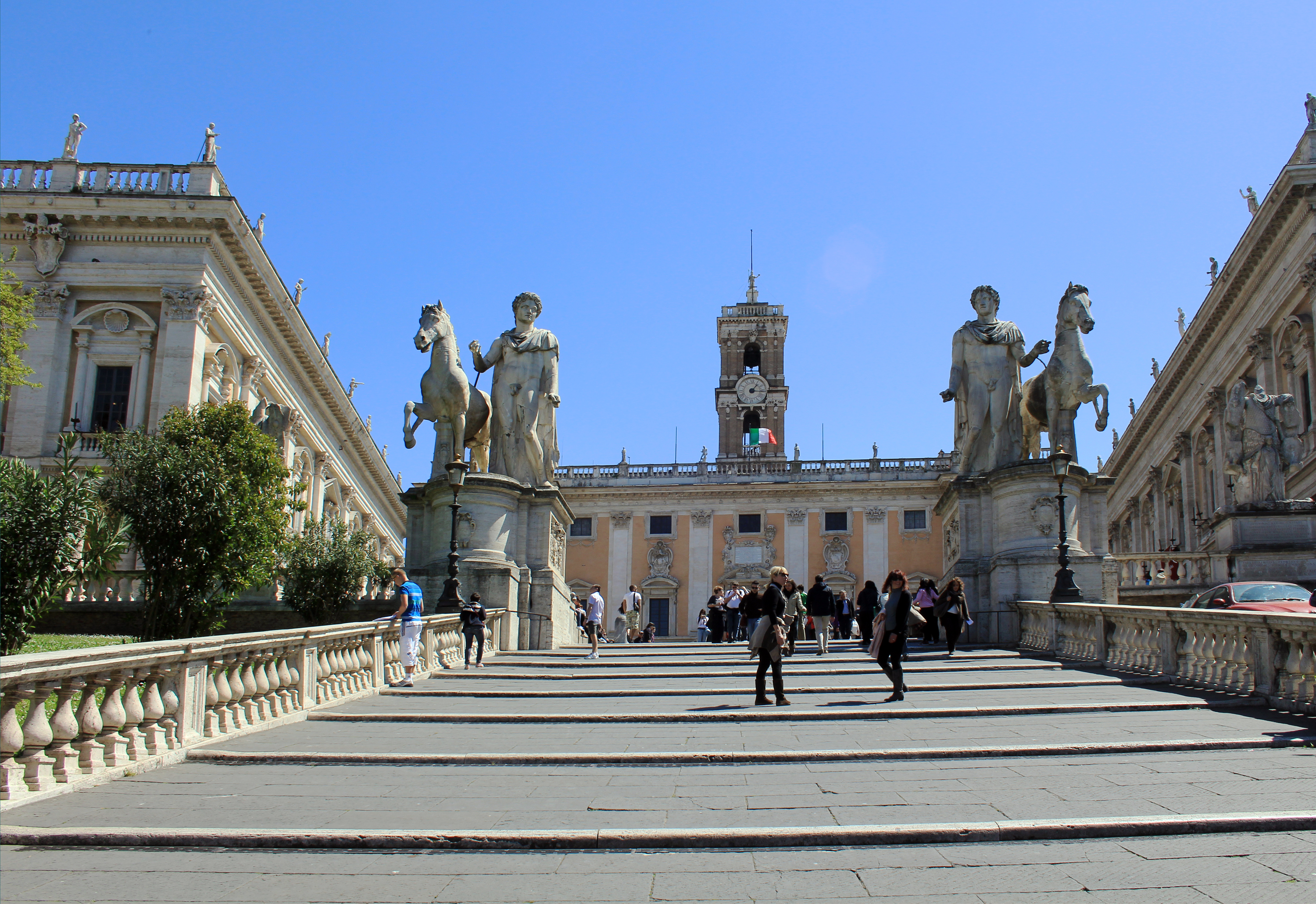 Palazzo dei Senatori (Palace of senators) Rome, Italy